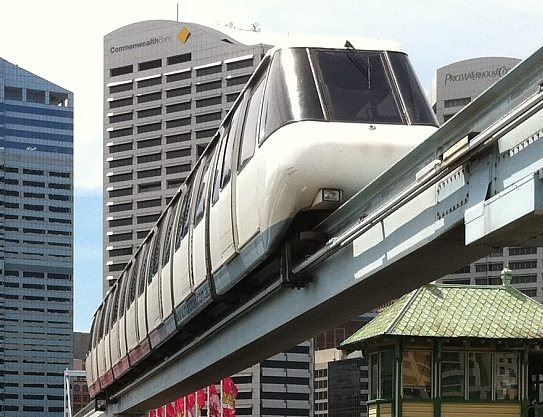 A photograph of the Sydney Monorail travelling over the Pyrmont Bridge while the bridge is open.